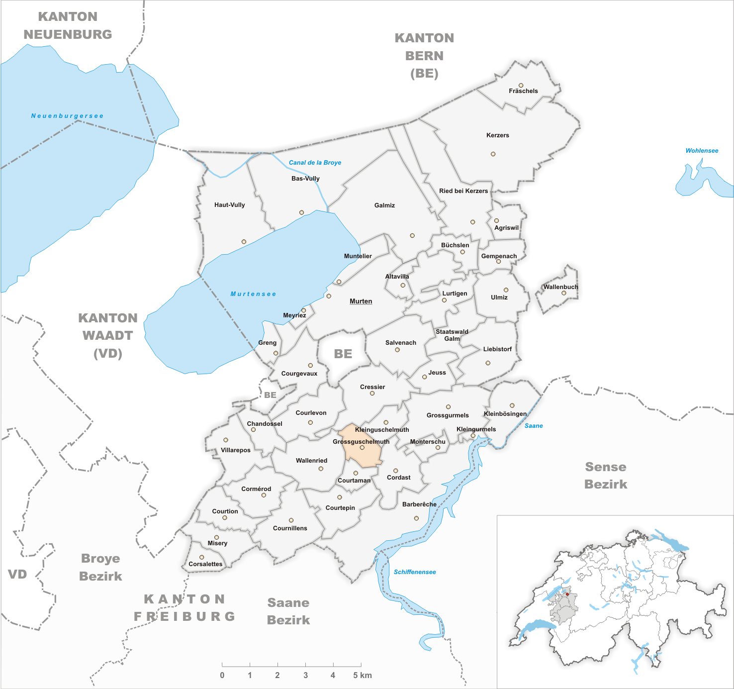 Municipality Grossguschelmuth Artist: Tschubby